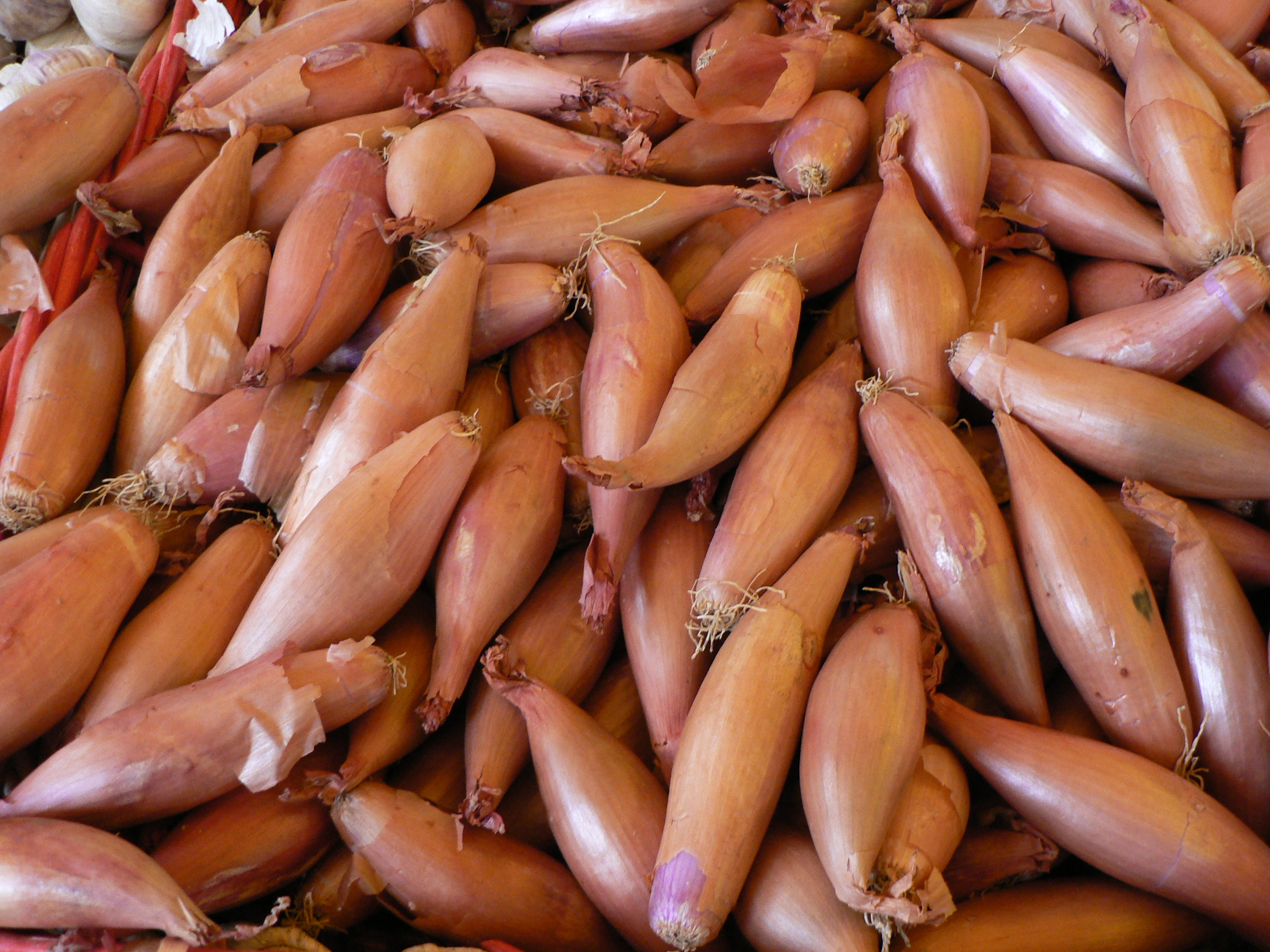 Shallots